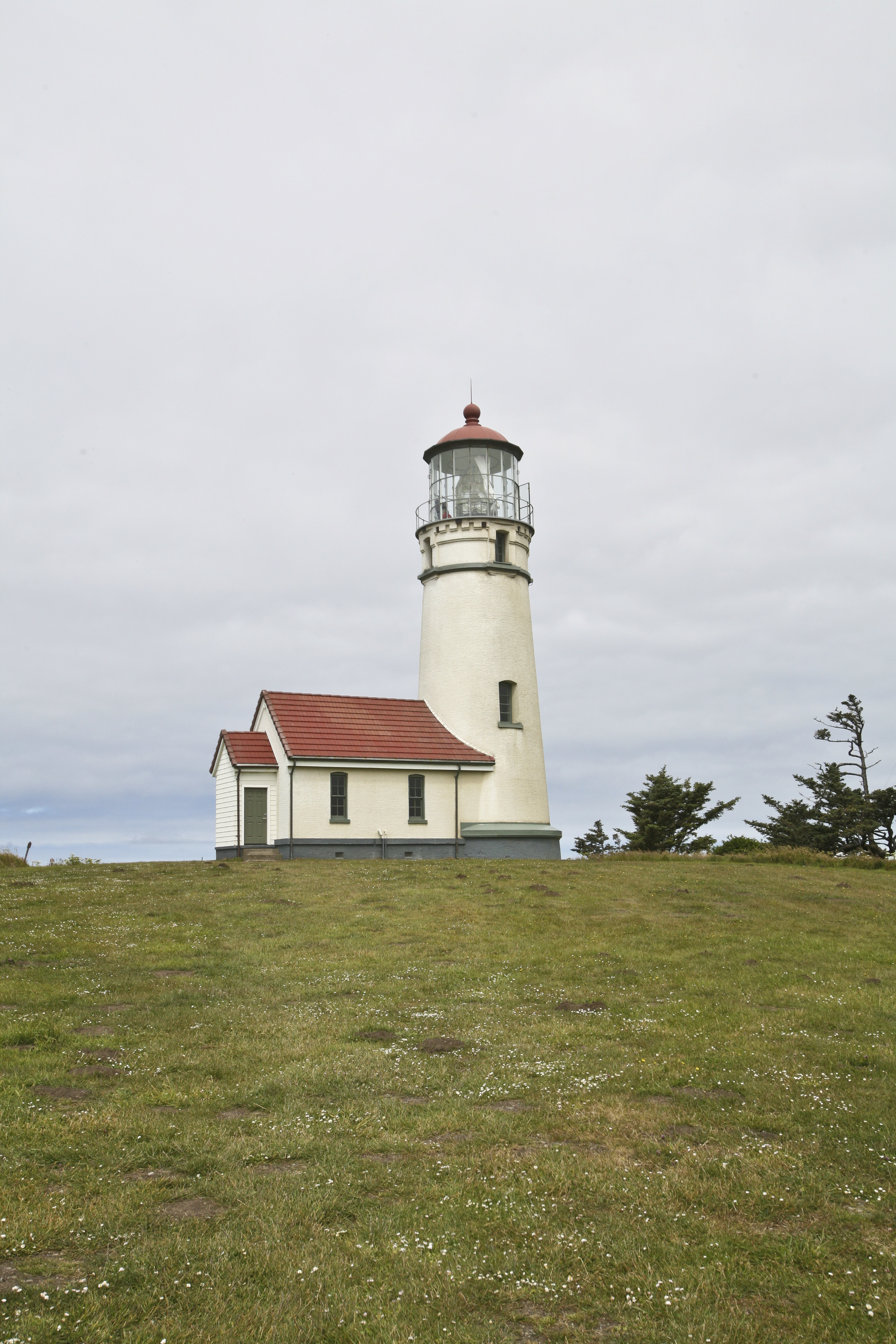 Cape Blanco Lighthouse near Port Orford, Oregon.